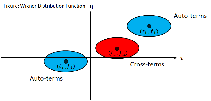 Wigner Distribution Function